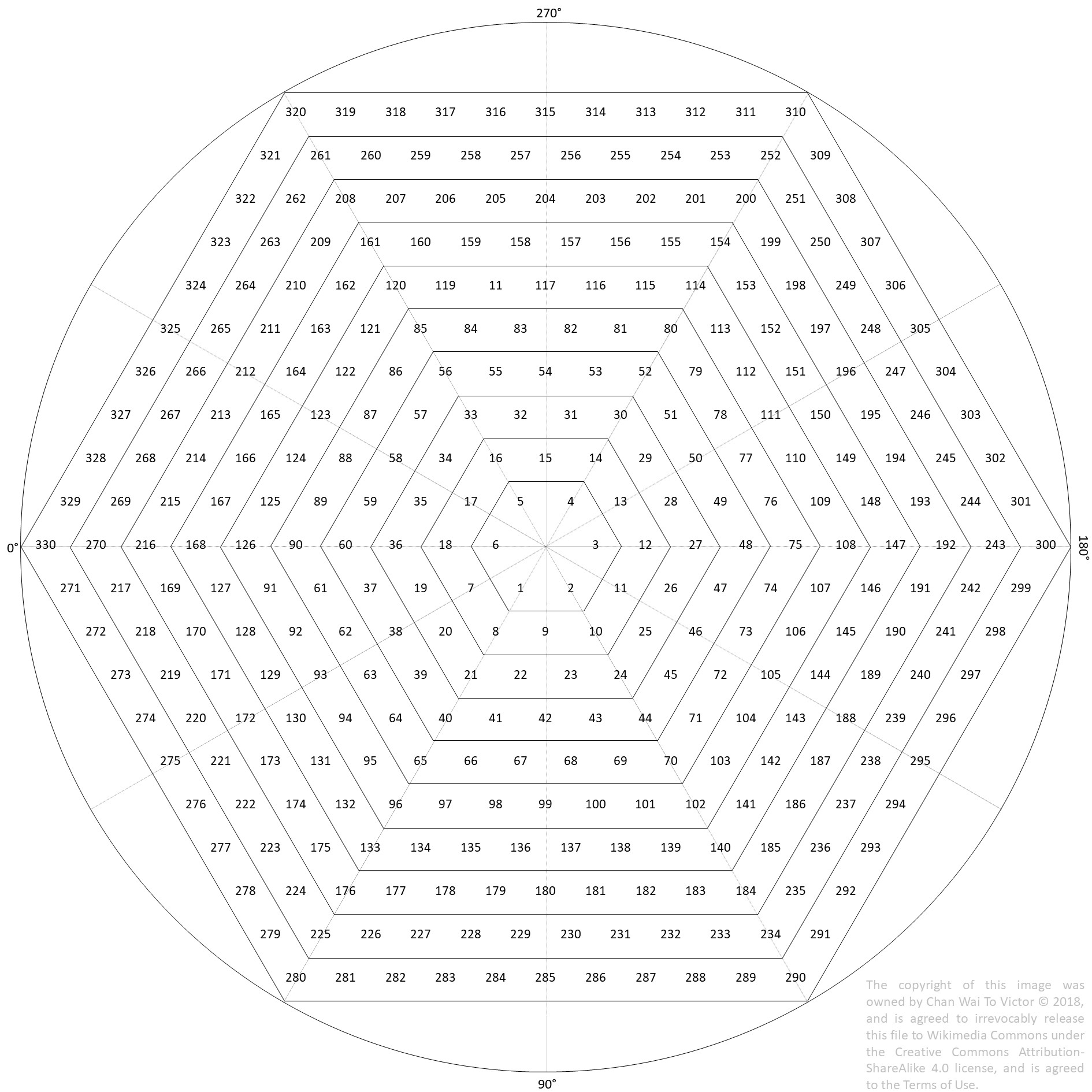 The Hexagon Chart popularised by W. D. Gann. This particular version of the chart is created by Victor Chan Wai-to who has agreed to to irrevocably release this file to Wikimedia Commons under the Creative Commons Attribution-ShareAlike 4.0 license